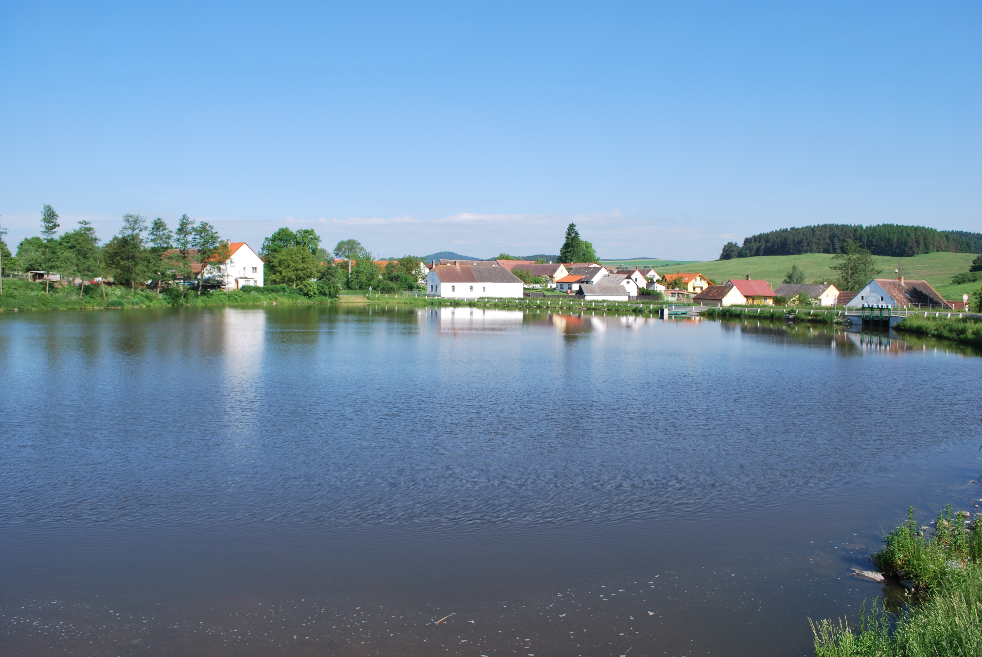 Frymburk village in Klatovy District, Czech republic. This photograph was taken within the scope of the 'Czech Municipalities Photographs' grant. - Google Maps - Google Earth